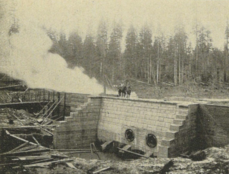 One of three photos collectively captioned "Bringing Cedar River water to Seattle. / This shows work in hand by Pacific Bridge Company." The photo is individually captioned "Headworks intake and wing dam".